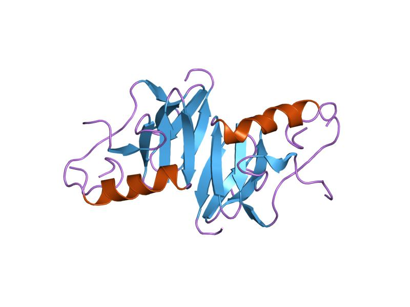 Cartoon representation of the molecular structure of protein registered with 1npo code.